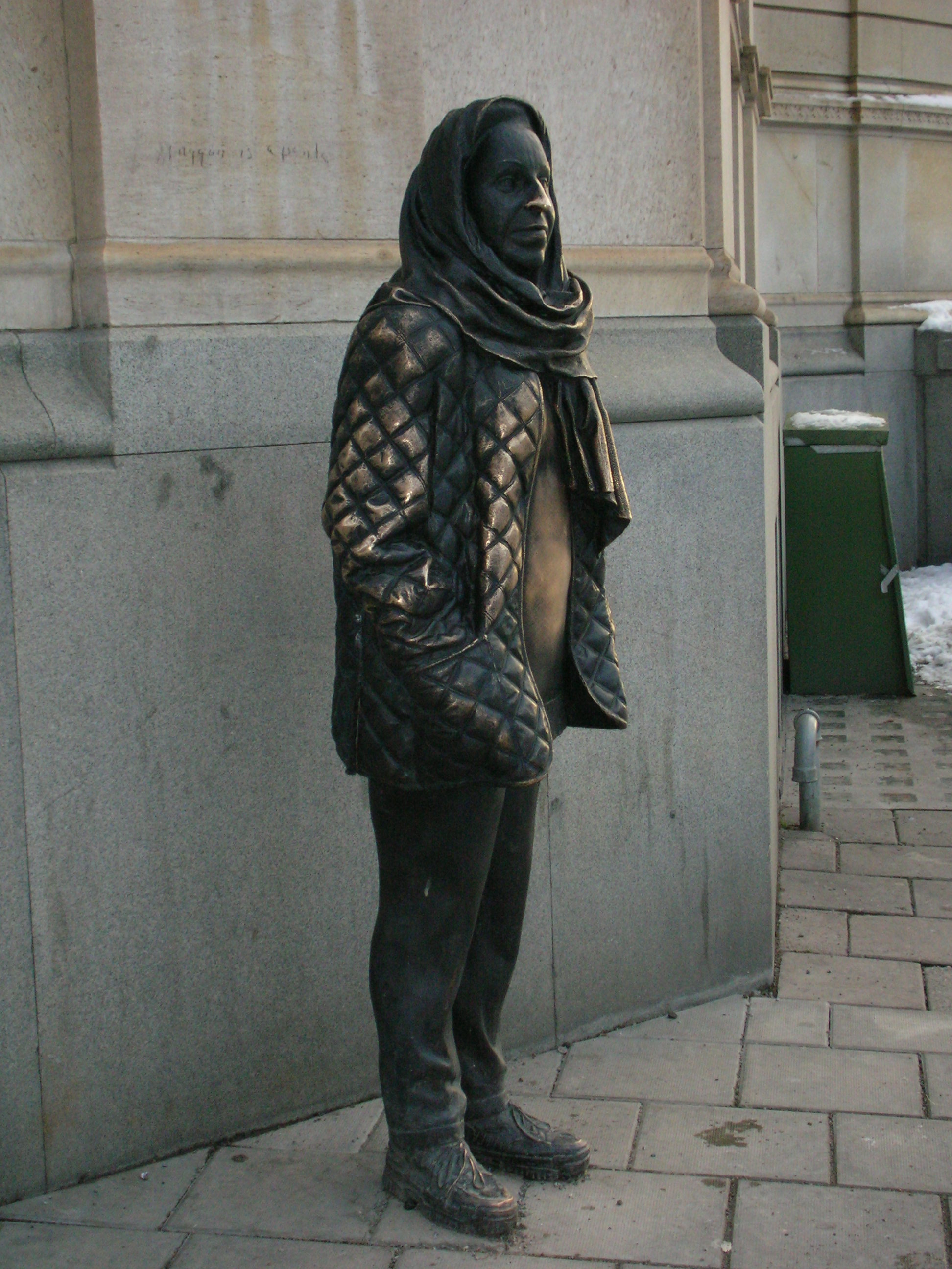 Statue depicting Margaretha Krook (1925-2001) outside Dramaten in Stockholm, by Marie-Louise Ekman (born 1944).